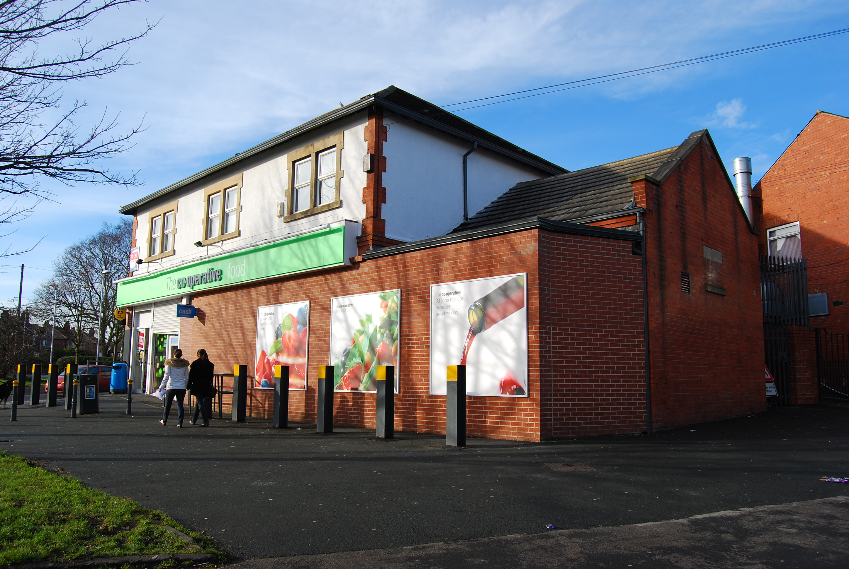 Co-op on the Hawksworth Estate.